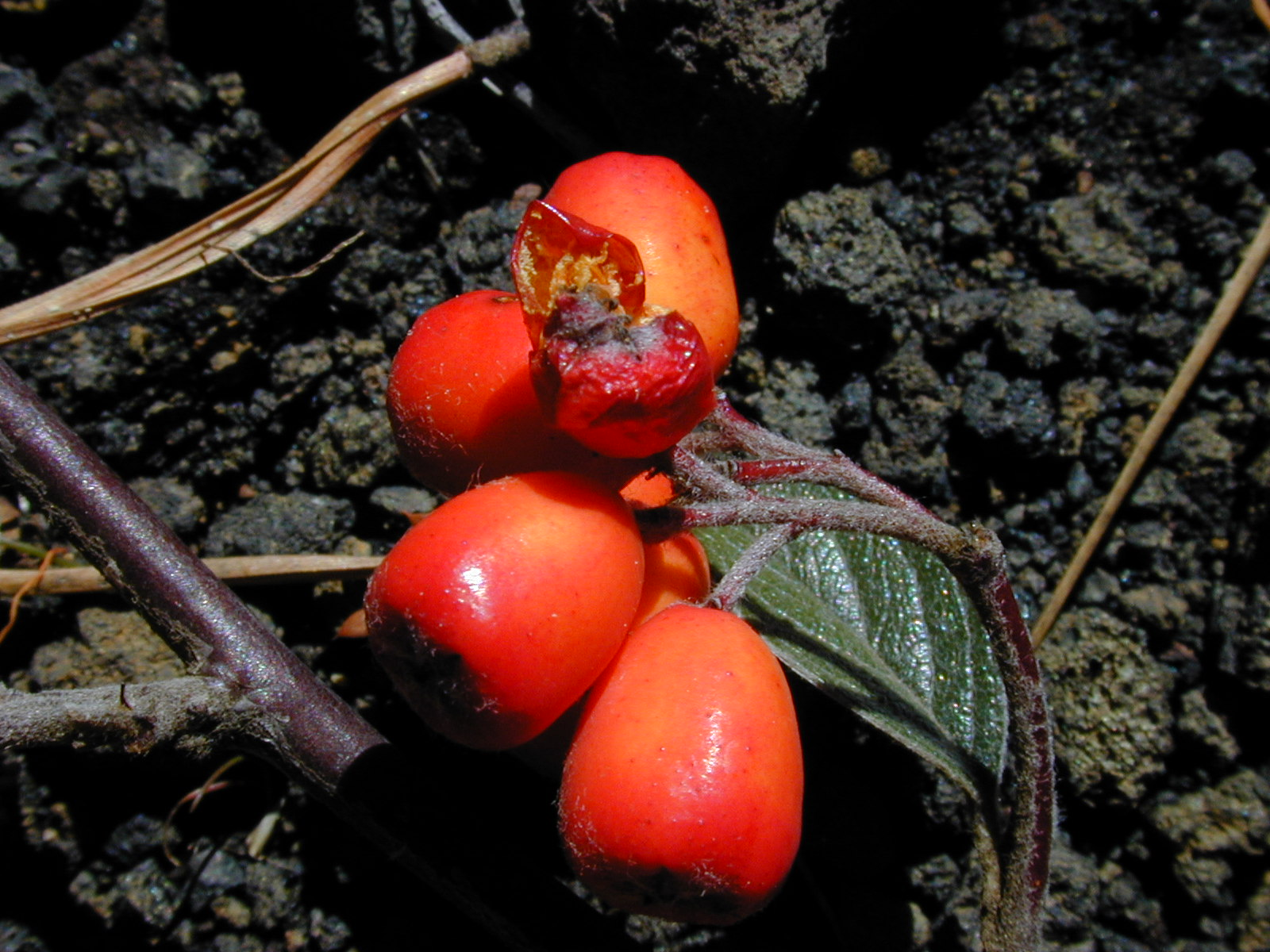 Cotoneaster pannosus (fruits nibbled on). Location: Maui, Polipoli